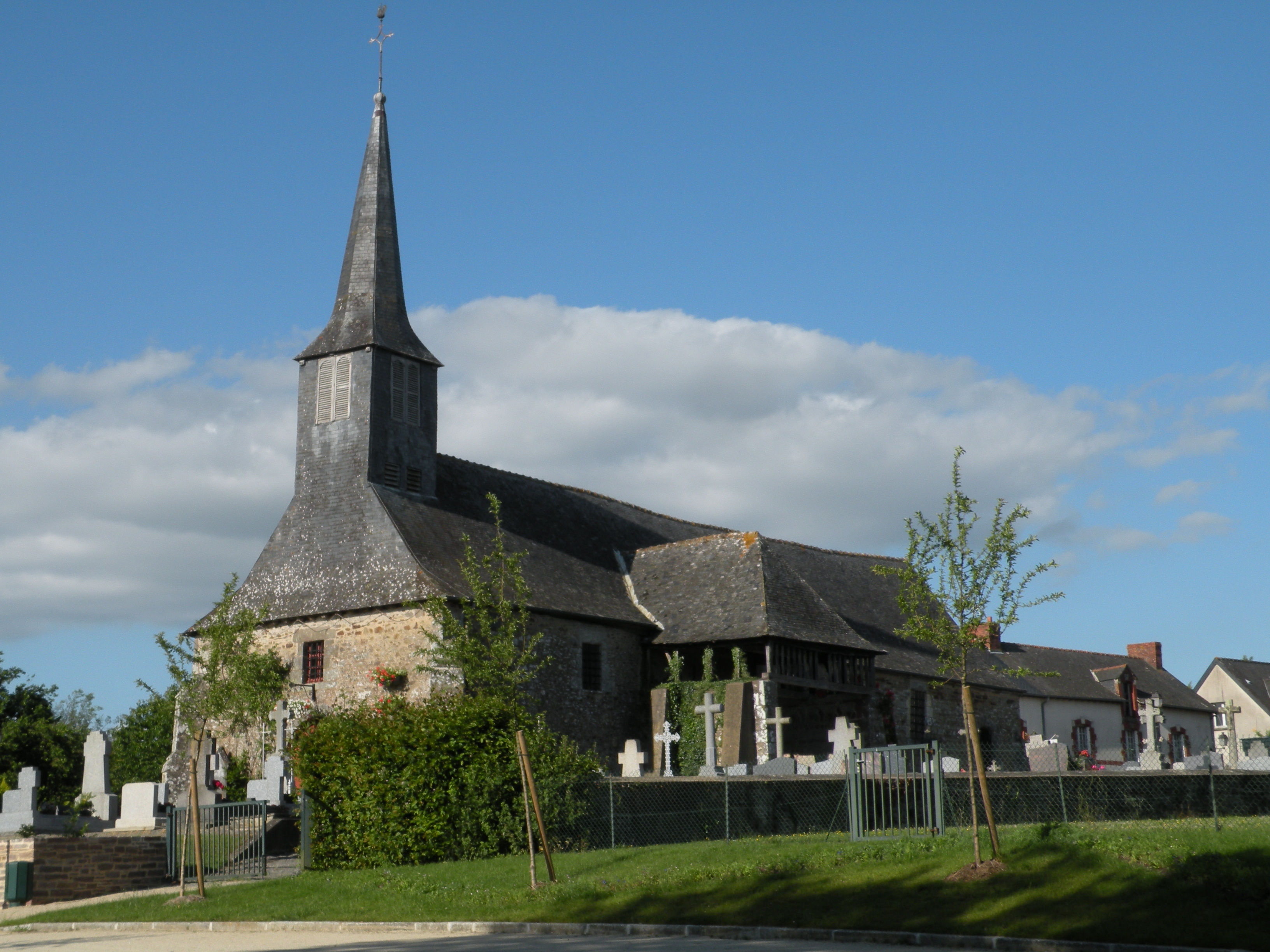 Church of Parthenay-de-Bretagne.